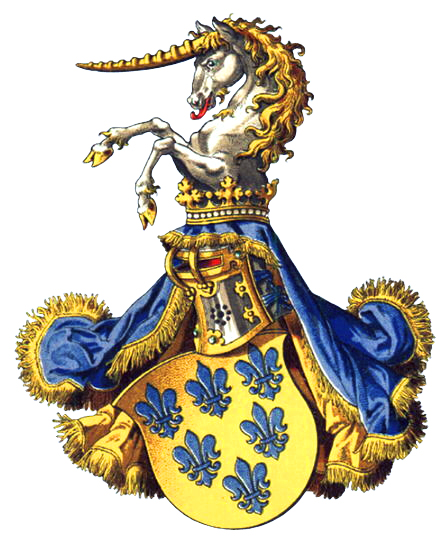 1 = Coat of arms of the duchy of Parma and Piacenza and of the Farnese family